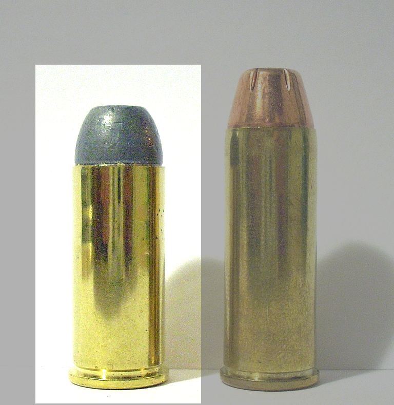 .45 Schofield cartridge (left highlighted) alongside the familiar .45 Colt